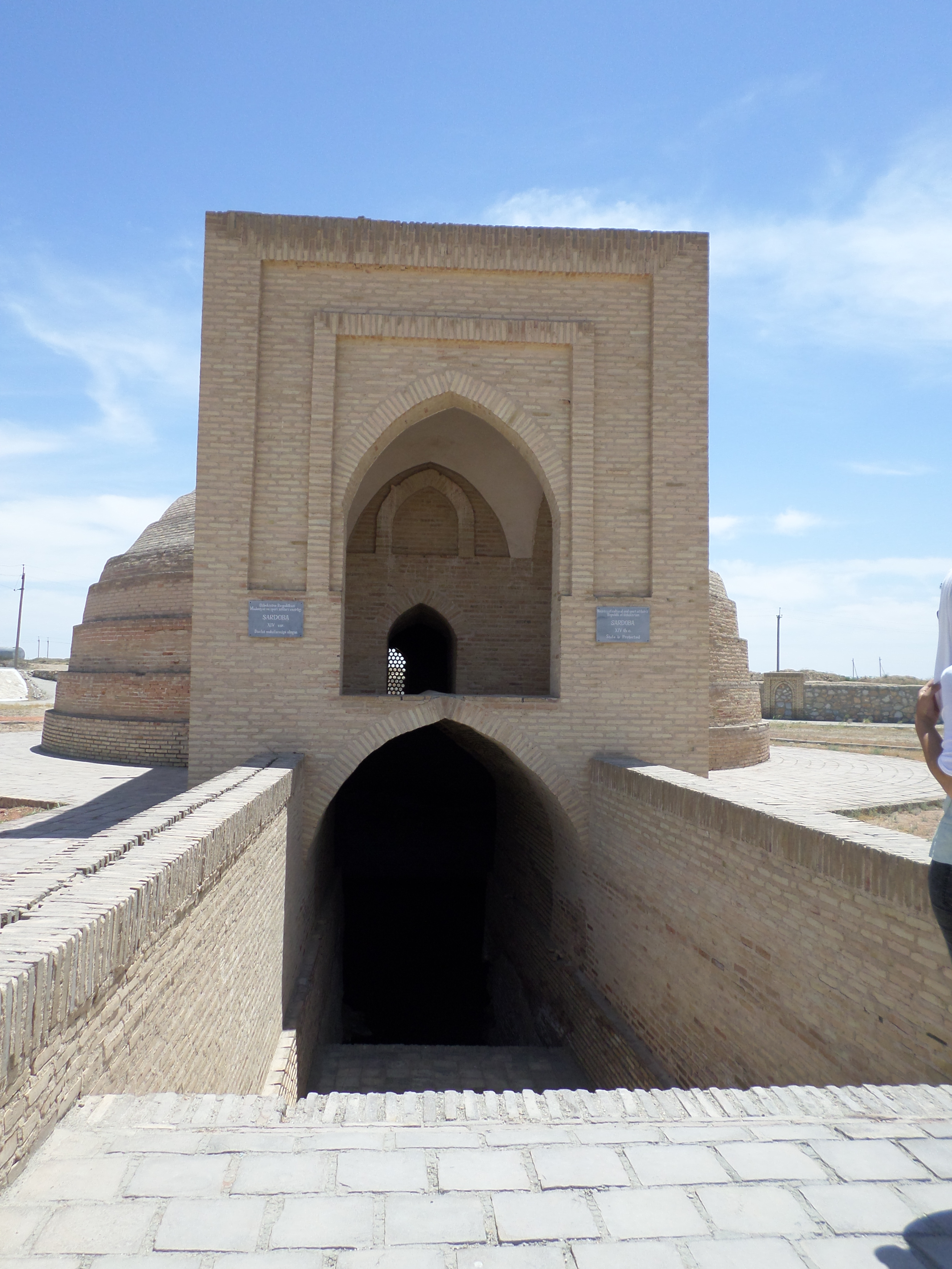 Malik sardoba